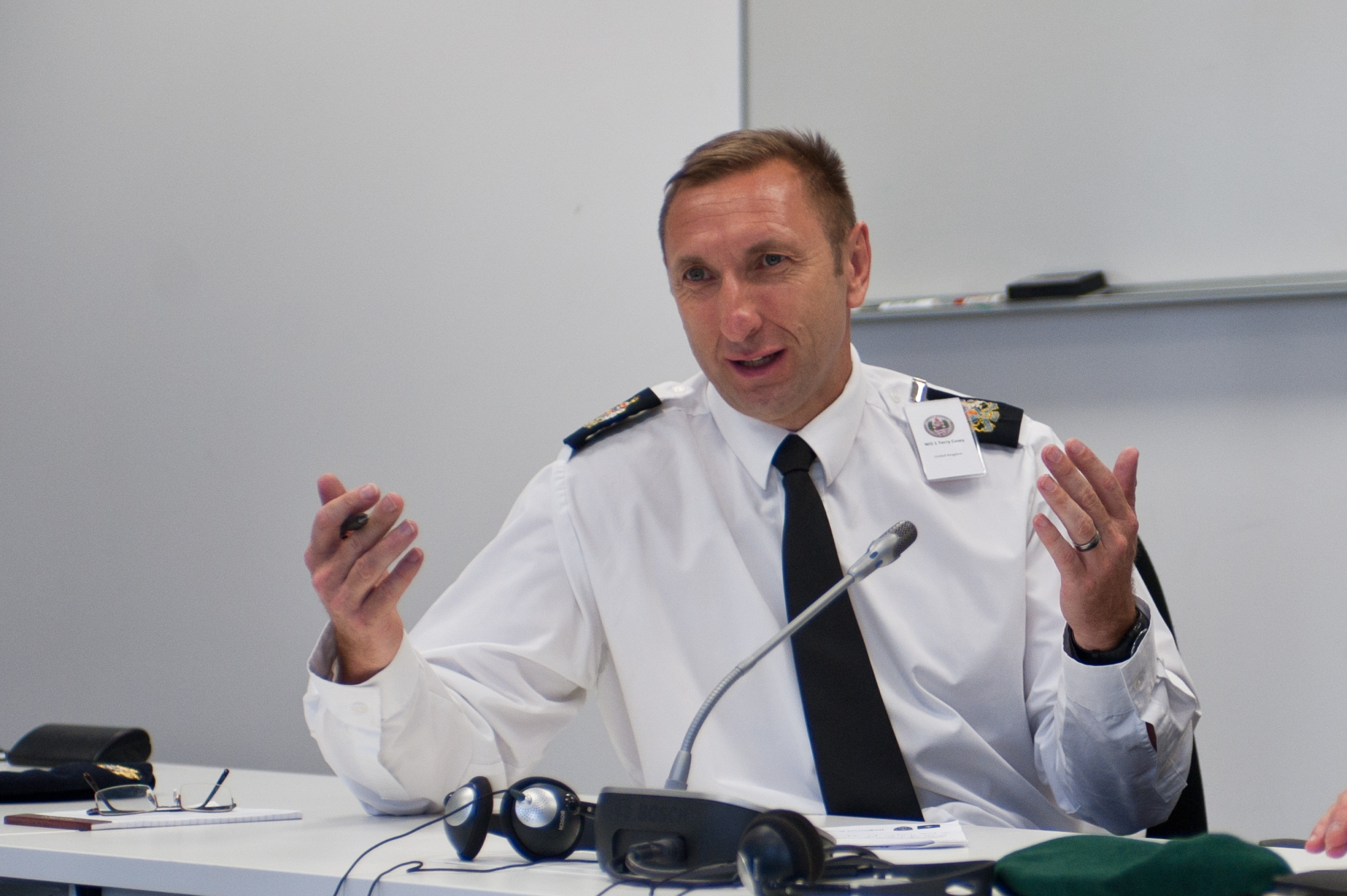 GARMISH, Germany - Warrant Officer Terry Casey, senior enlisted leader Naval Service Royal Navy Command, speaks to an assembled group of fellow senior enlisted leaders during a NATO noncommissioned officer strategy session designed to promote NCO Corps professional development, Sept. 10. Bringing together 32 nations at the George C. Marshall European Center for International Studies in Garmisch, Germany, the International Senior Enlisted Seminar 2012 is the flagship professional development event for NATO, Partnership for Peace and key contact nation senior enlisted leaders, helping to prepare them for increasingly complex and challenging multinational environments, while continuing the development of a professional NCO Corps in NATO and partnered countries.